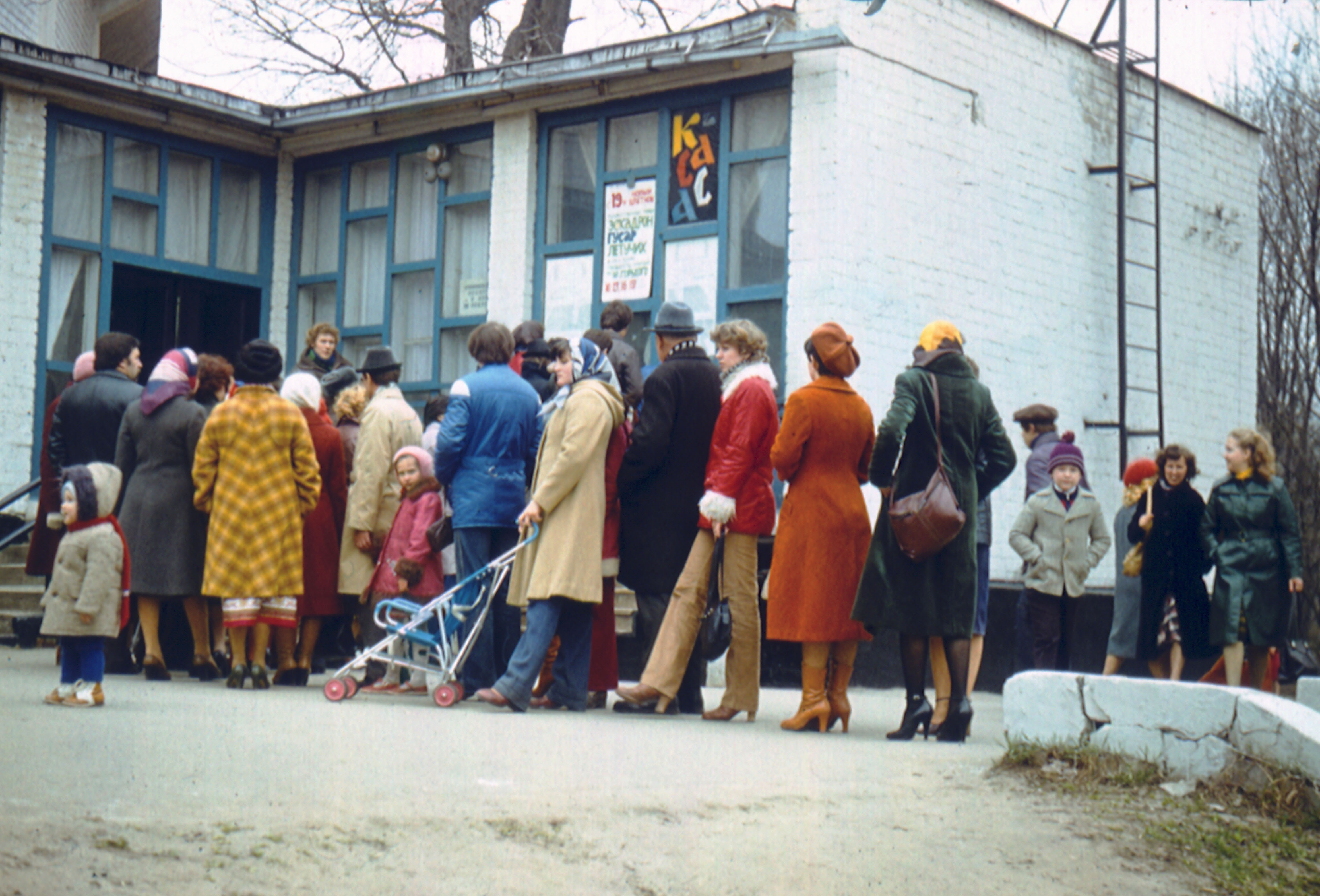 Kharkov ca. 1980-1981. Ukraine Cinema in the Shevchenko Orchard. People queuing up to buy tickets to musical wide-screen color historic film. leader of soviet screen (23.6 mln viewers)